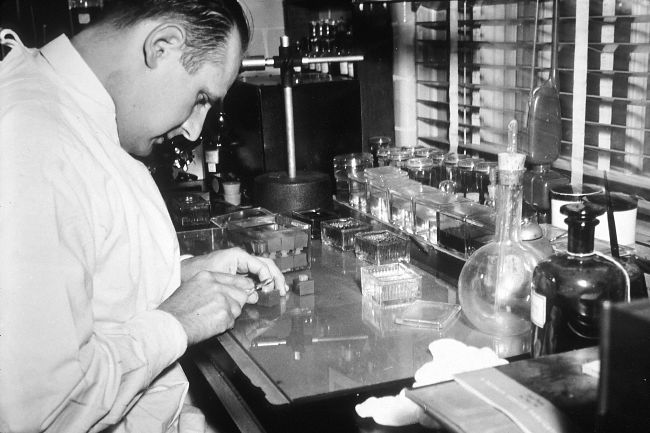 Title Histology Description A Caucasian male technician preparing tissue to be stained and studied histologically in a laboratory. Topics/Categories Historical, Technology and Treatment Type B&W, Photo Source National Cancer Institute